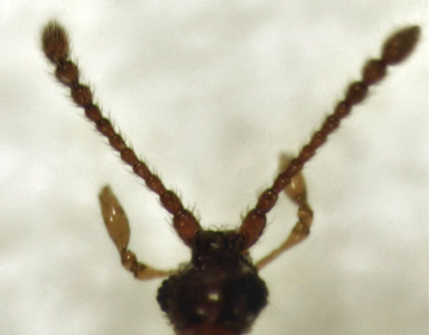 Pselaphophus atriventris (adult head)